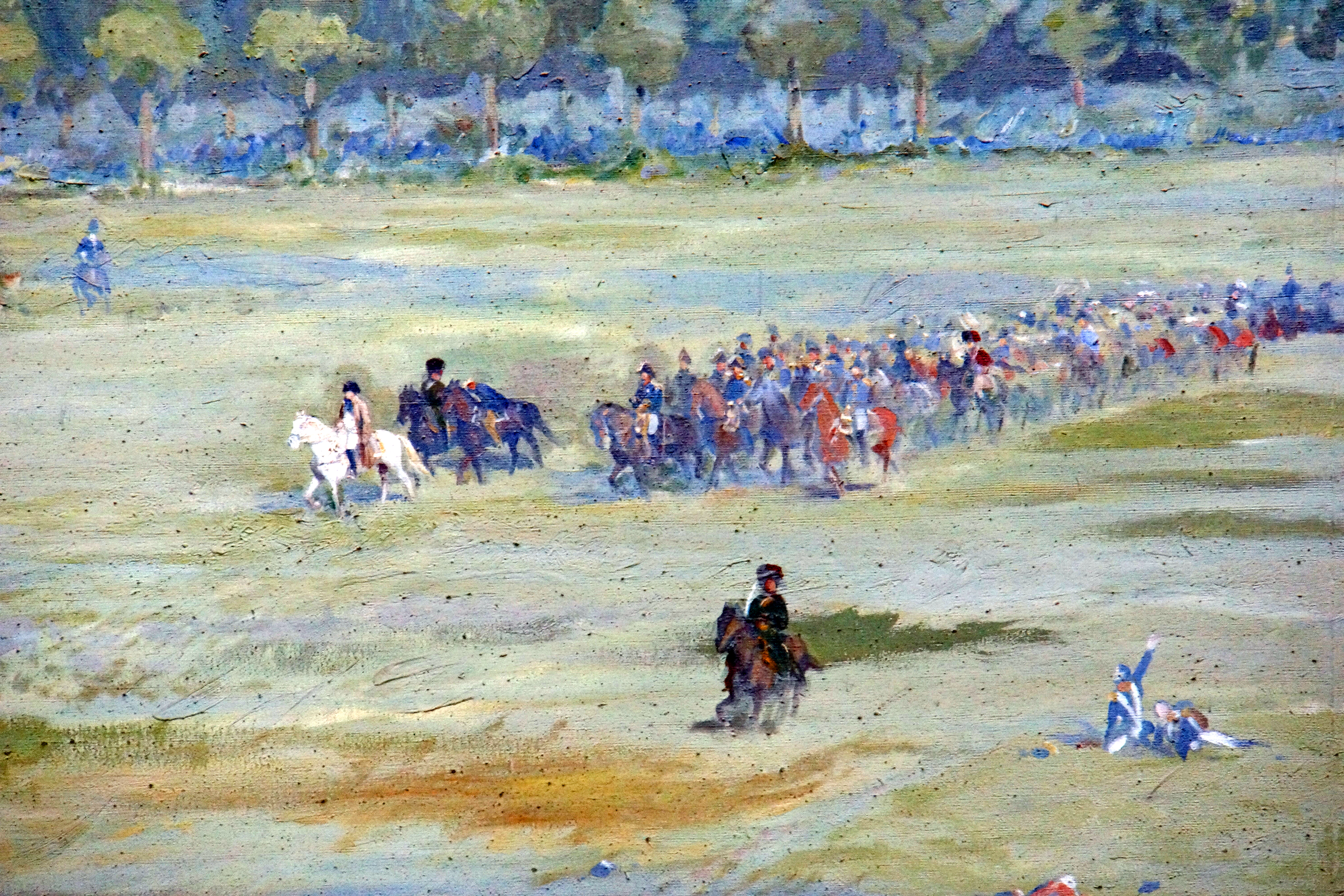 PLEASE, NO invitations or self promotions, THEY WILL BE DELETED. My photos are FREE to use, just give me credit and it would be nice if you let me know, thanks. Napoleon at the head of his staff Part of the panorama of the battle.